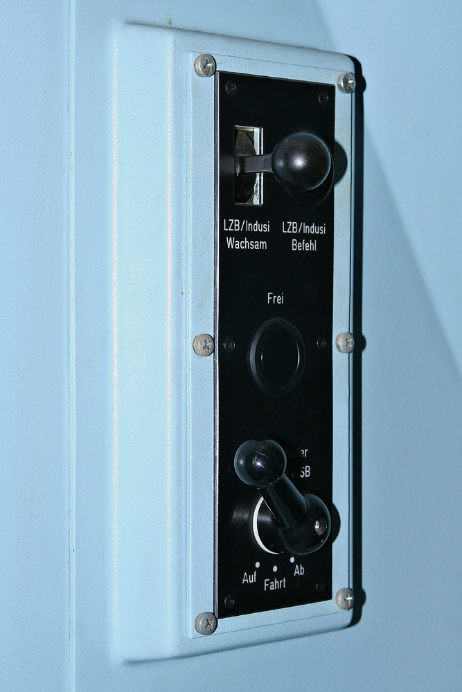 A seperate control unit on the driver's cab of a DB class 101. This unit can be found next to the window. It allows engineers to control some basic functions of the locomotive when departing at low speeds.